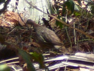 Double-spurred Francolin